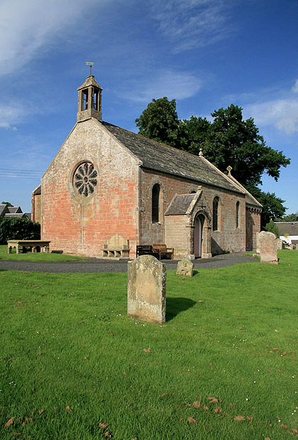 Legerwood Parish Church This red sandstone building dates back to the 12th century. The west gable wall has a rose window and a birdcage belfry. There are two date stones (commemorating repairs) set into the external walling, one on the west wall dated 1717 and the other on the south wall dated 1804.